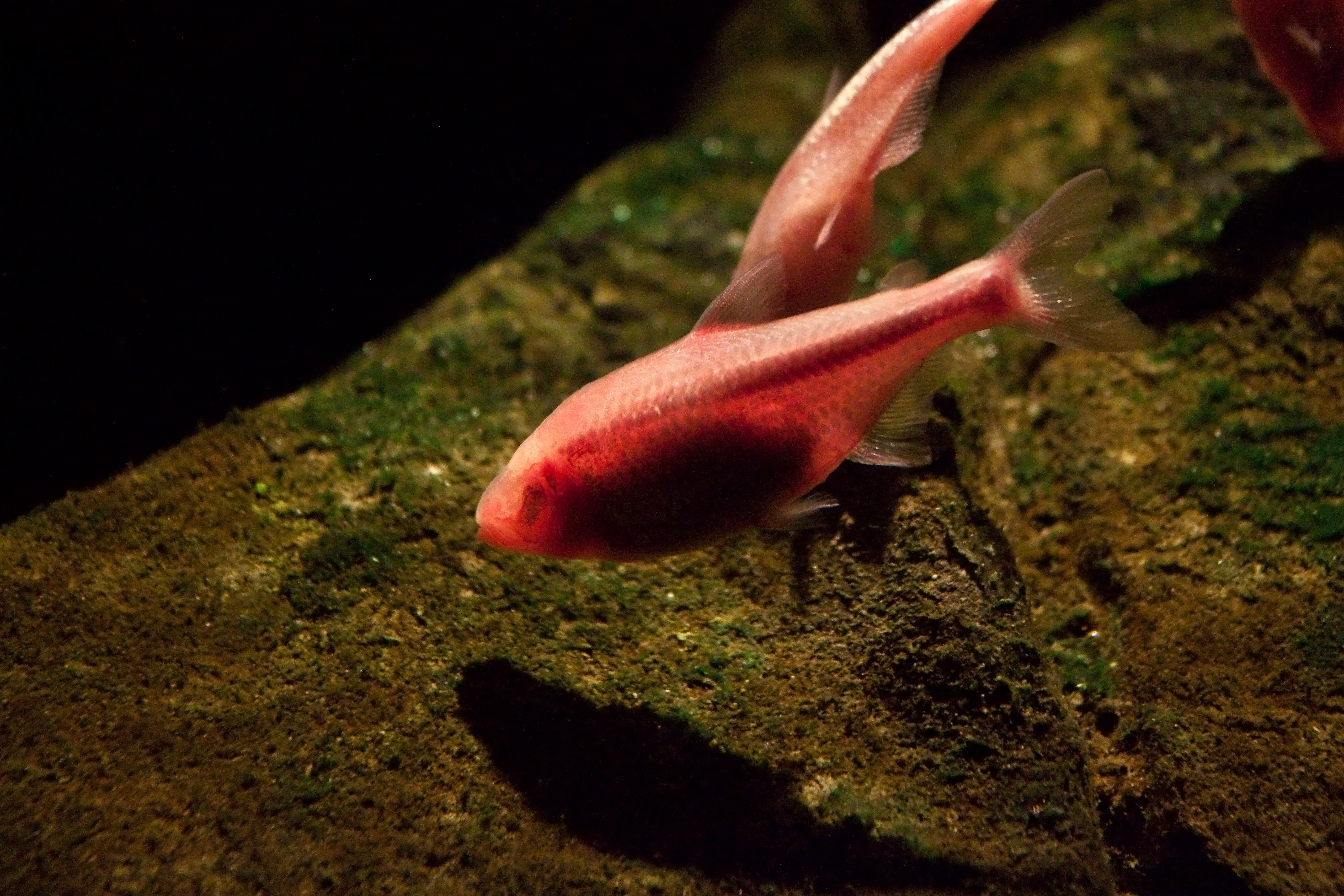 A blind cave tetra, also known as Mexican tetra (Astyanax mexicanus) living in the zoo of Rostock.